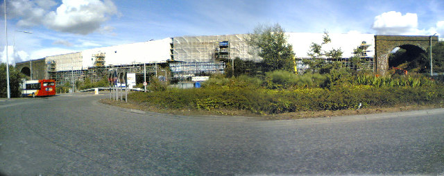 Mr Mowlem has it all wrapped up.. Civil Engineering maintenance works on the Jamestown Viaduct. The railway bridge is shrouded in plastic to offer protection from the elements. Not only is it good from a health and safety perspective but should also reduce downtime due to inclement weather. [unwrap it now 137275 ]